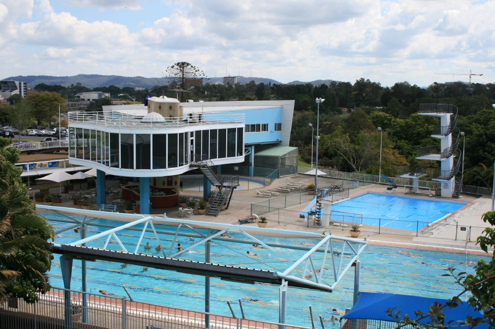 Arial view of the Centenary Pool Complex